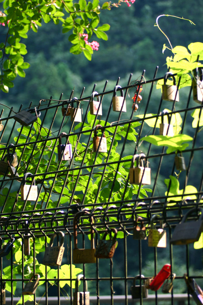 Bergpas der Geliefden in Mima